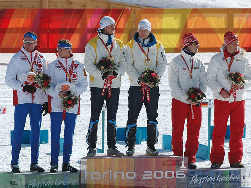 Podium for the team sprint in the 2006 Winter Olympics in Torino. Gold: Thobias Fredriksson and Björn Lind, Sverige. Silver: Jens Arne Svartedal and Tor Arne Hetland, Norway. Bronze: Ivan Alypov and Vassili Rotchev, Russia.